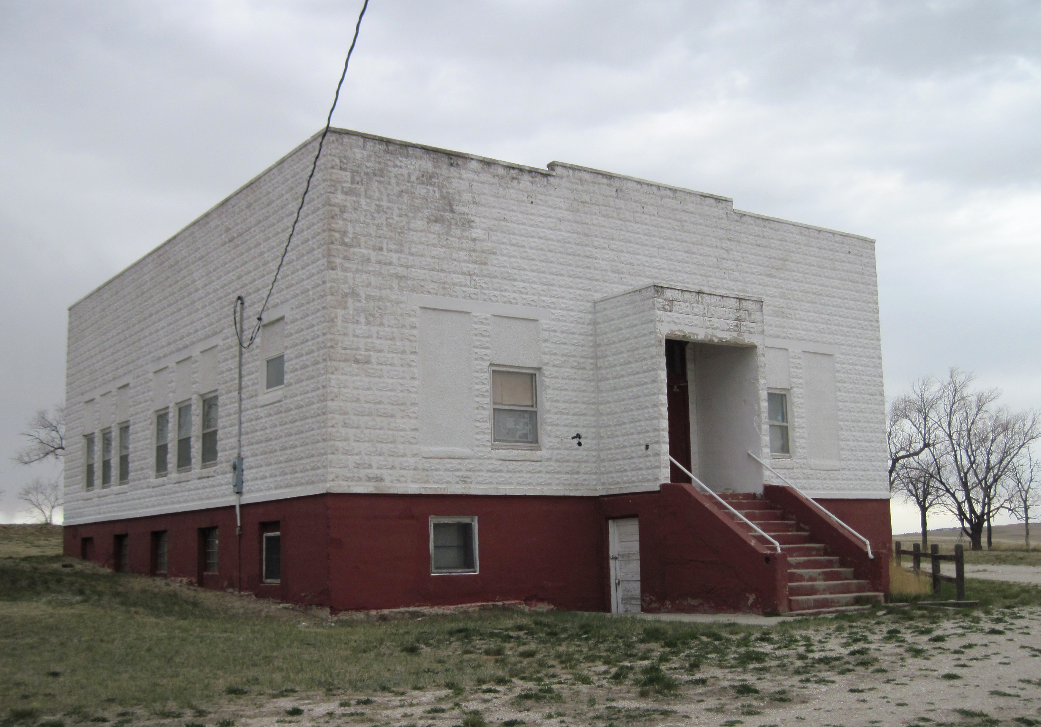 Southeast elevation of the old schoolhouse in Marsland, Nebraska. The structure is now privately owned.